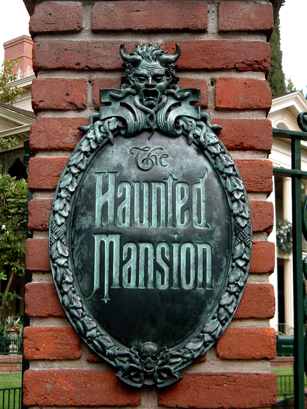 Sign for the Haunted Mansion at Disneyland